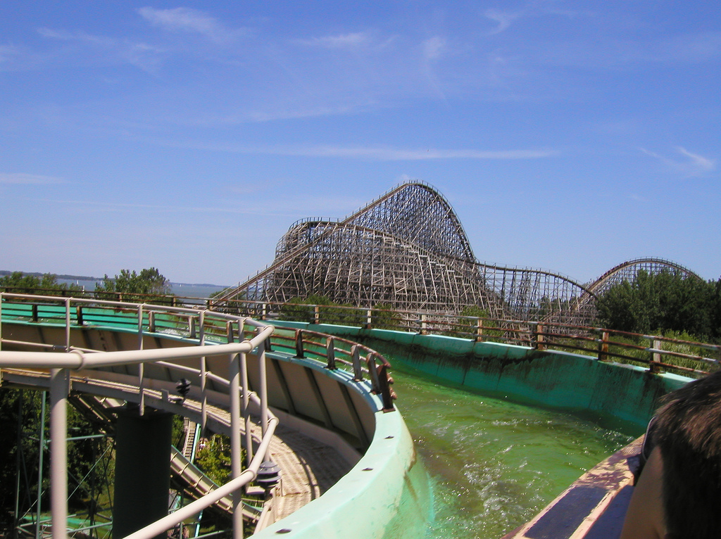 Inside a boat on White Water Landing at Cedar Point.